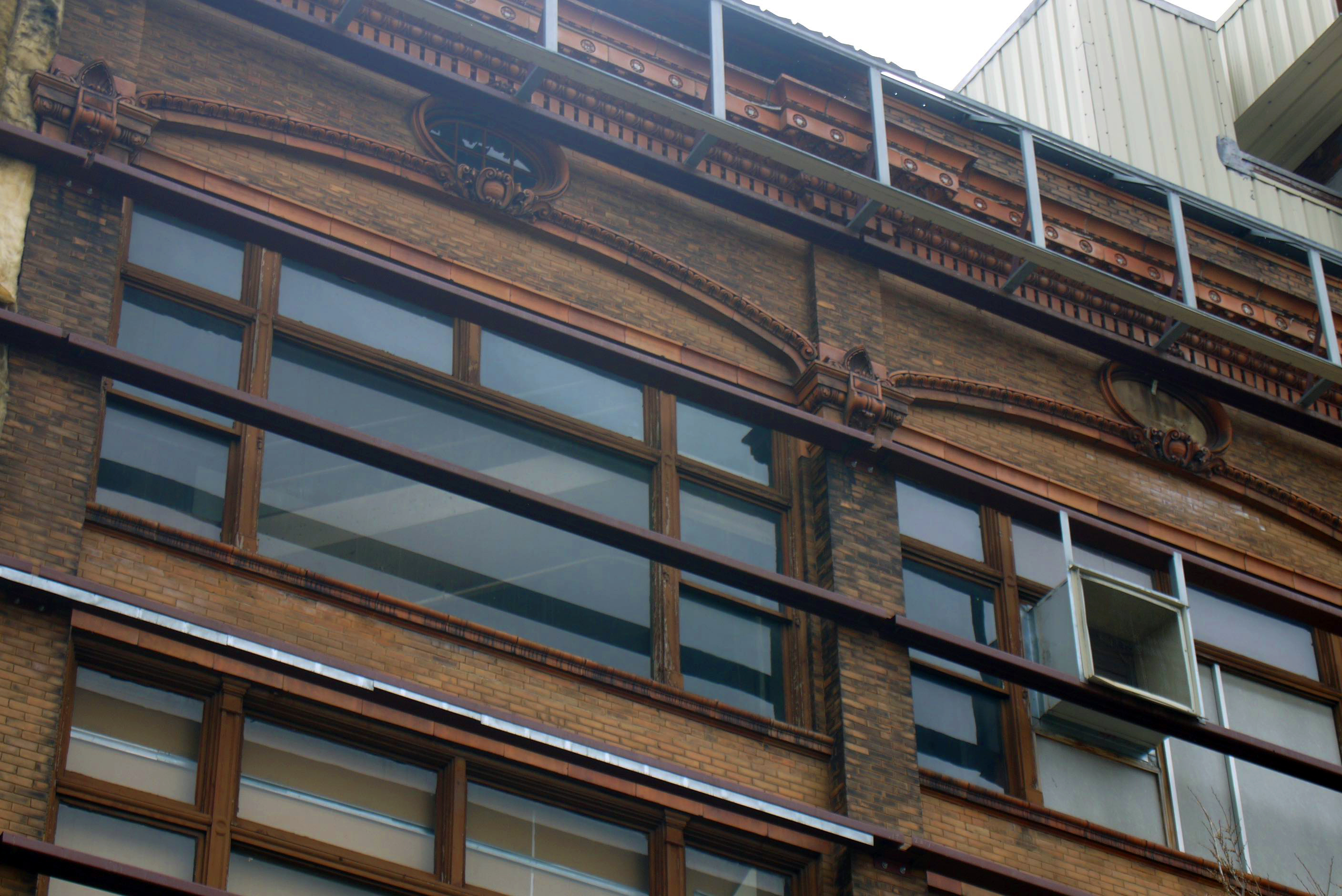 Exterior of Schuster's Department Store at 2151 N. King Drive in Milwaukee, WI